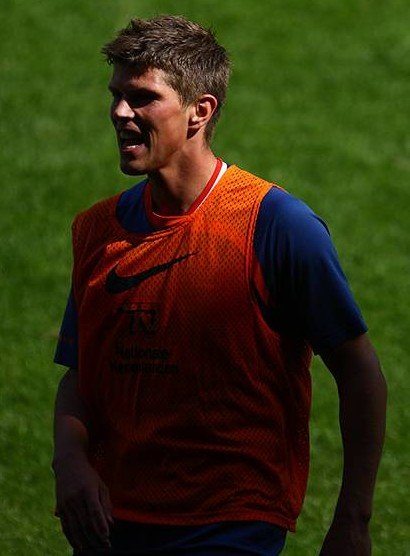 SEPTEMBER 4, 2009 - Football : Klaas Jan Huntelaar of Netherlands in aciton during the training session at FC Twente Stadium on September 4, 2009 Enschede, Netherlands. (Photo by Tsutomu Takasu)